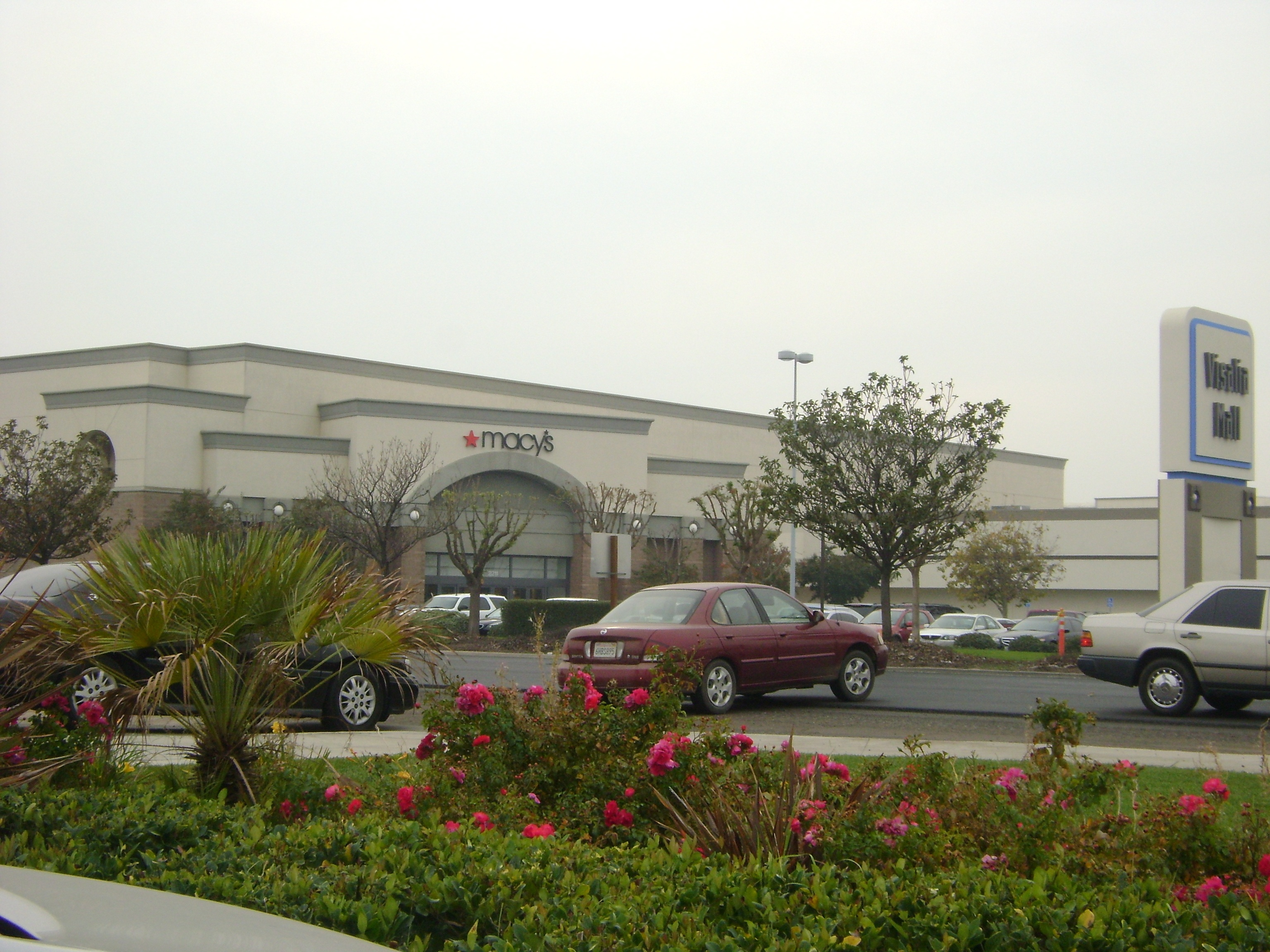 Visalia Mall November 2009